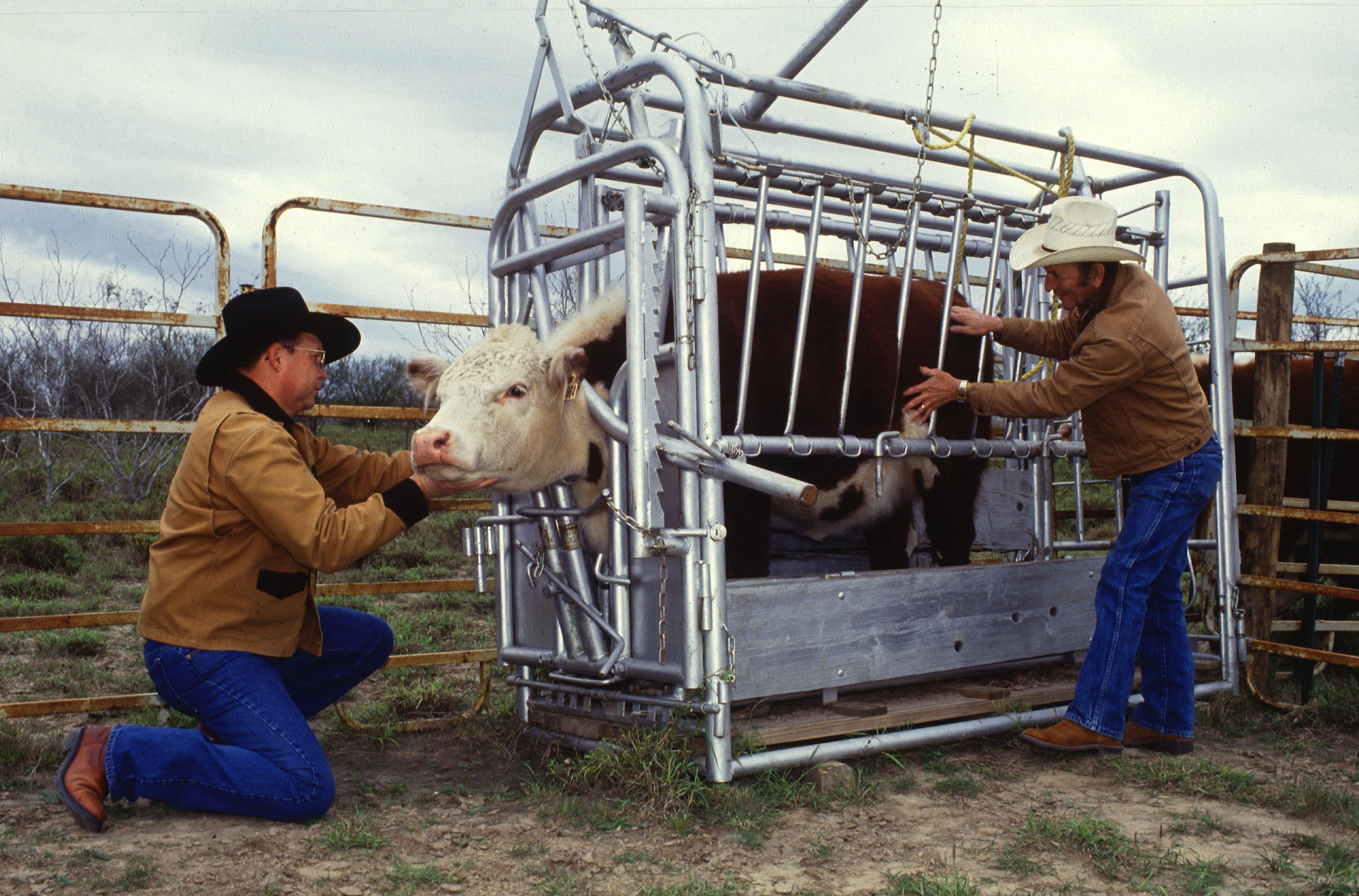 Entomologist Elmer Ahrens (left) and animal caretaker Adolfo Pena inspect for cattle fever ticks.